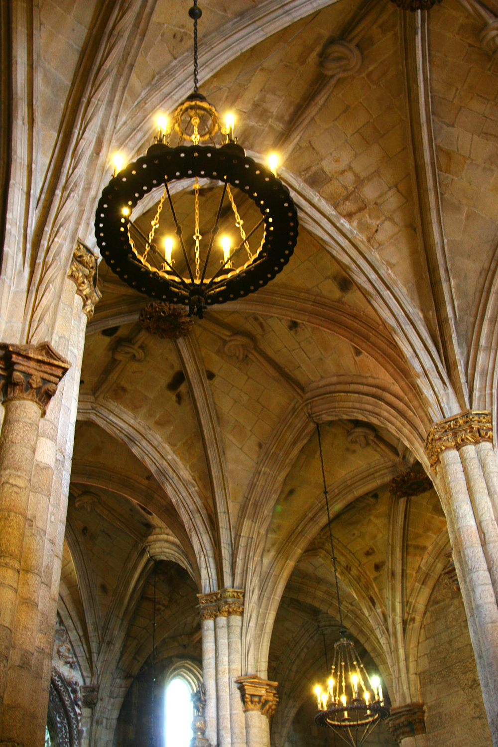 Interior of Viseu Cathedral, Portugal